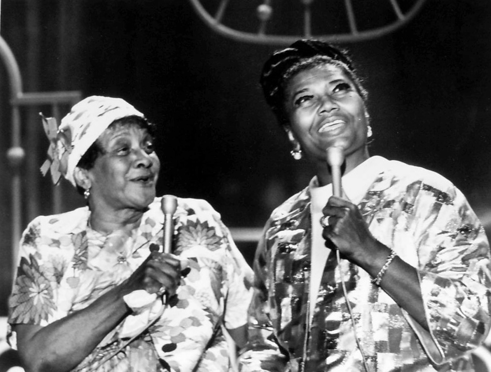 Photo of Moms Mabley and Pearl Bailey performing on The Pearl Bailey Show. Bailey had a weekly prime time variety television program for a time--Mabley was her guest for this episode.